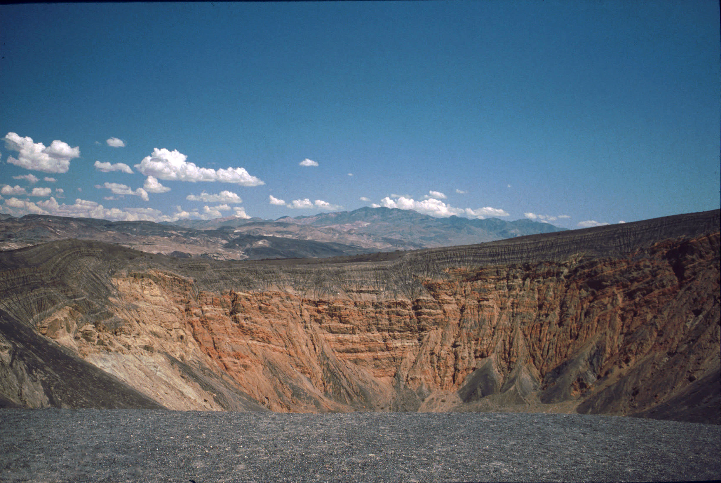 Death Valley, Ubehebe Crater